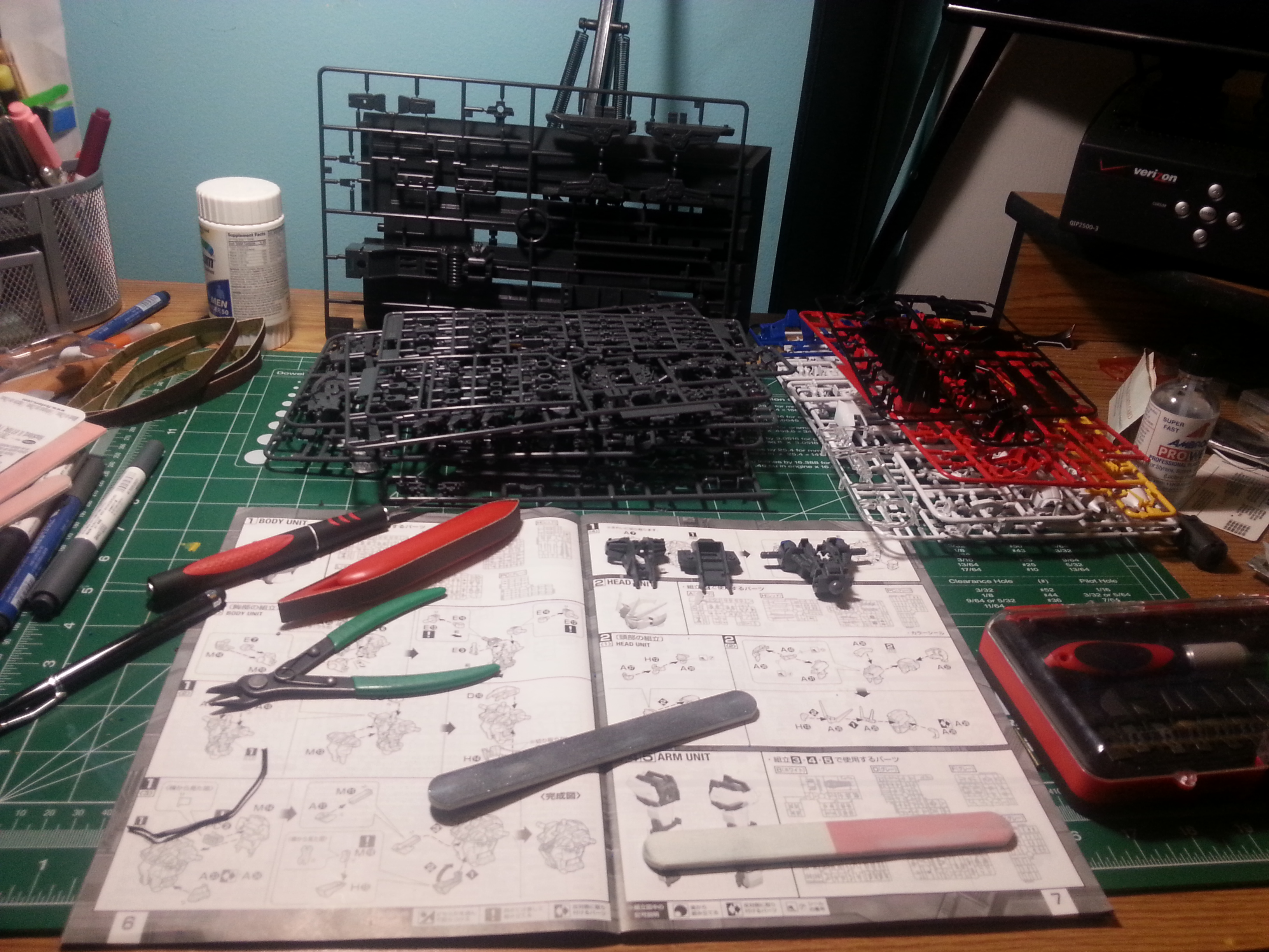 WORKING TABLE OF A GUNPLA MODELIST AND TOOLS, COURTESY OF GUNDAM KITS COLLECTION